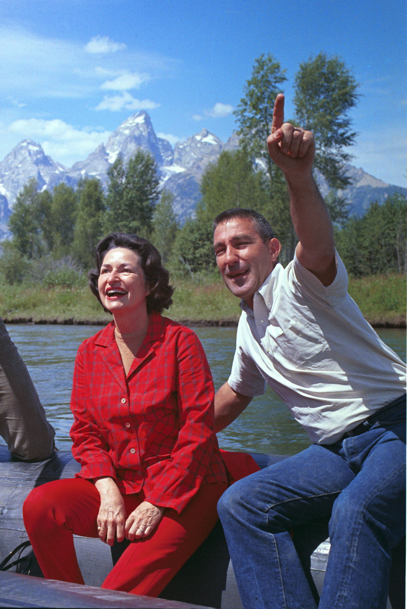 Secretary of the Interior Stewart Udall with First Lady, Lady Bird Johnson on a raft in Grand Teton National Park, 1964.